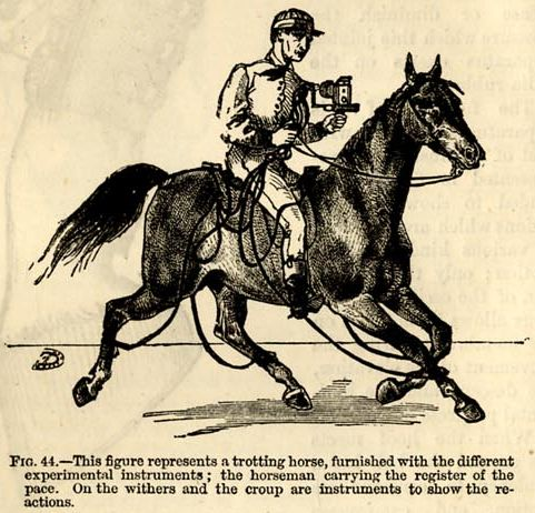 Trotting horse and its rider, with instrument for recording the sequence of the horse's legs